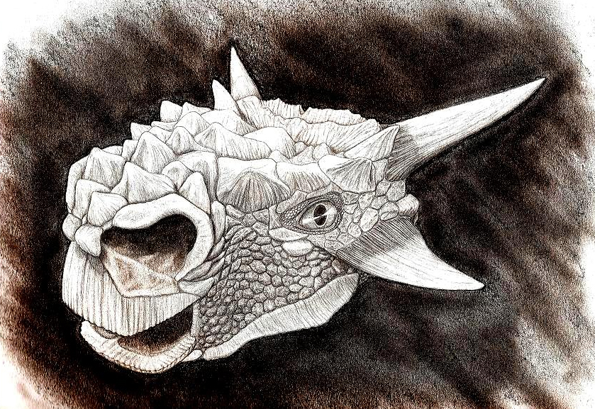 Minotaurasaurus ramachandrani